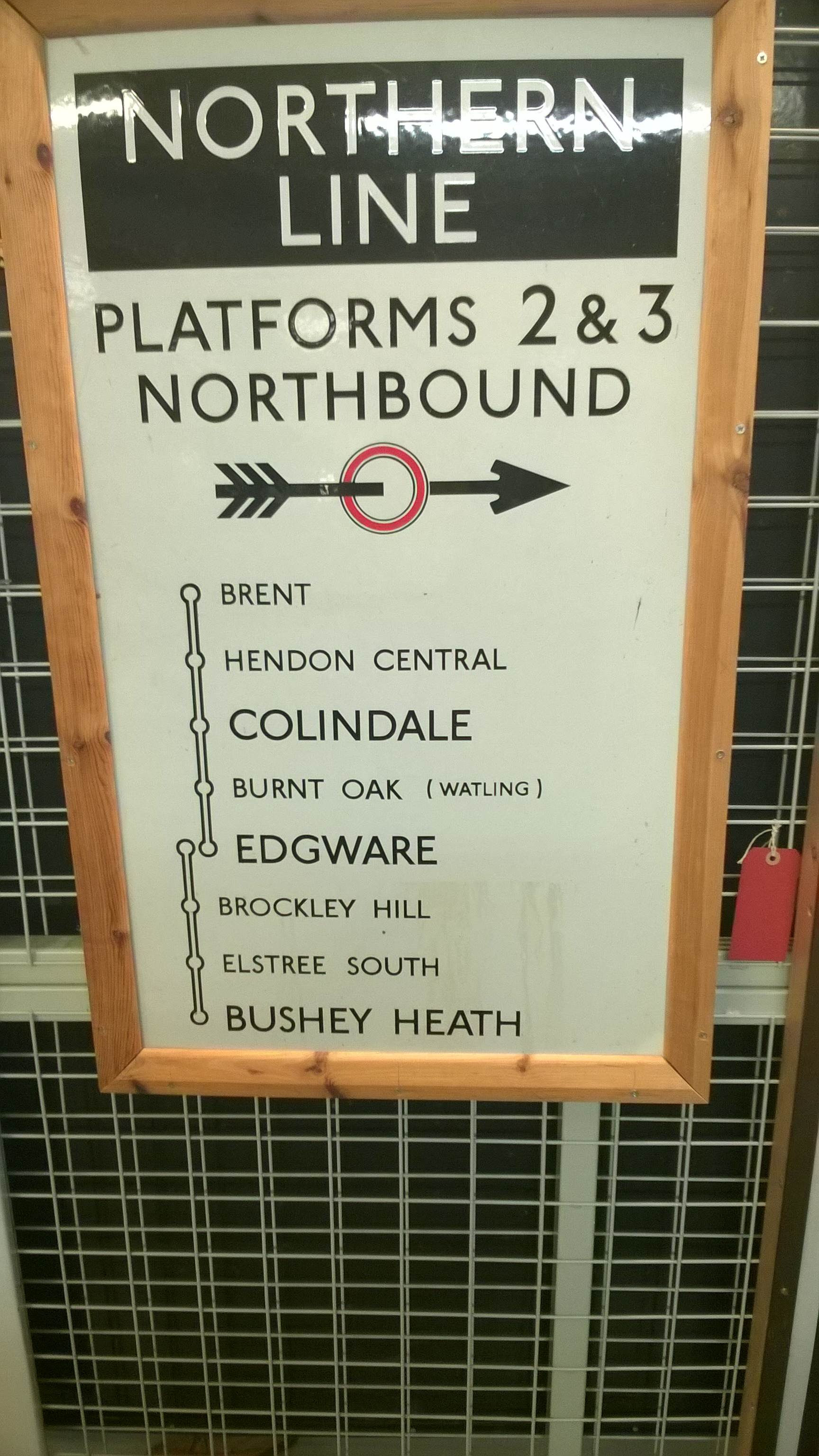 Sign displaying route of Northern Line Northern Heights extension